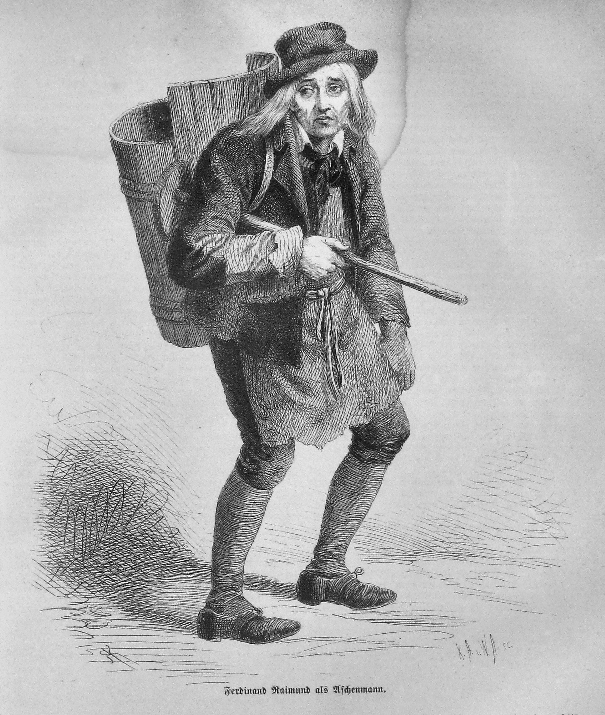 caption: "Ferdinand Raimund als Aschenmann."